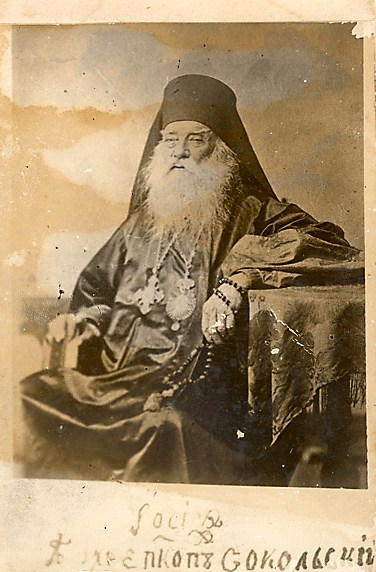 Iosif Sokolski Portrait